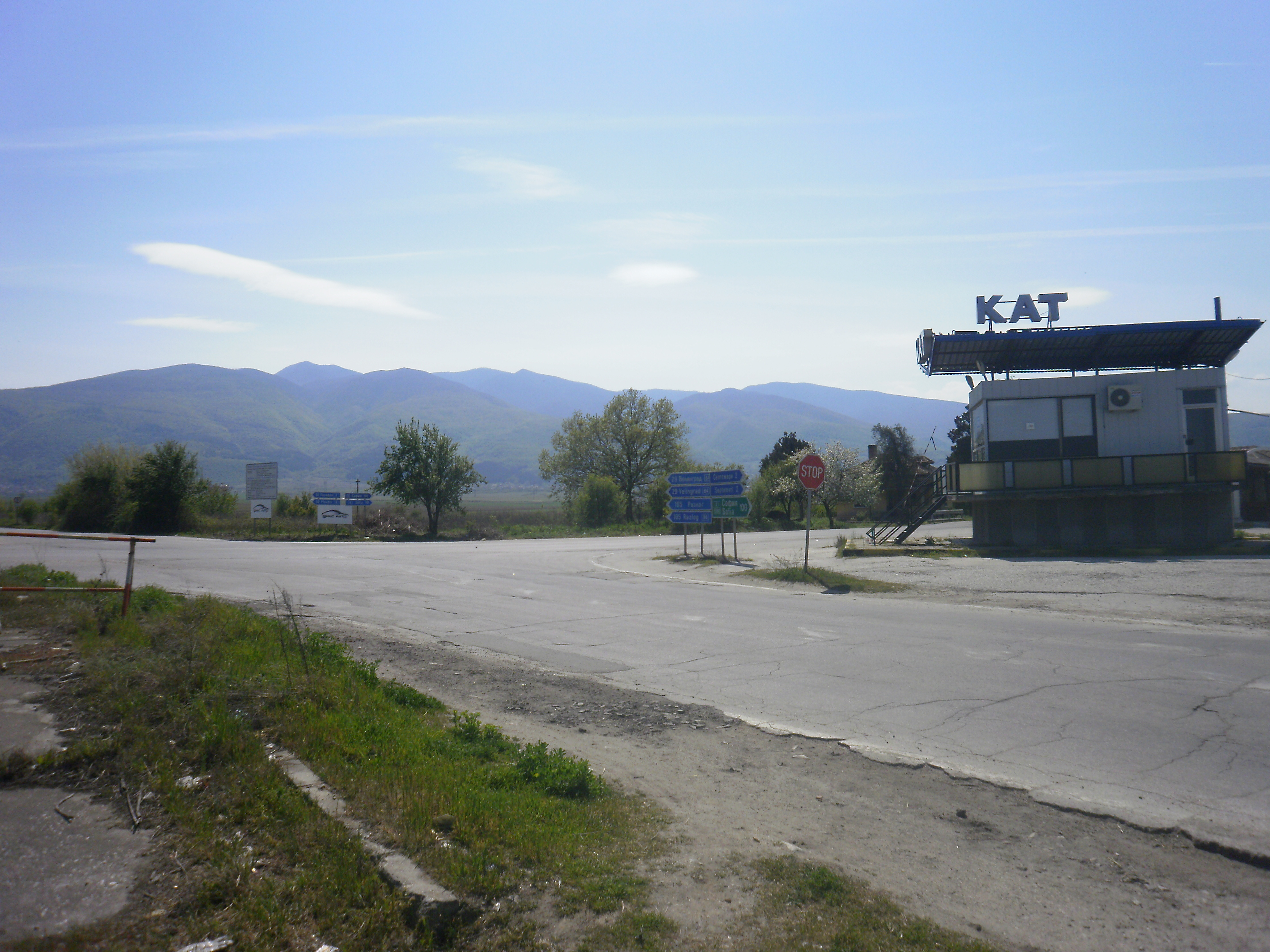 Septemvri, Pazardzhik District, Bulgaria